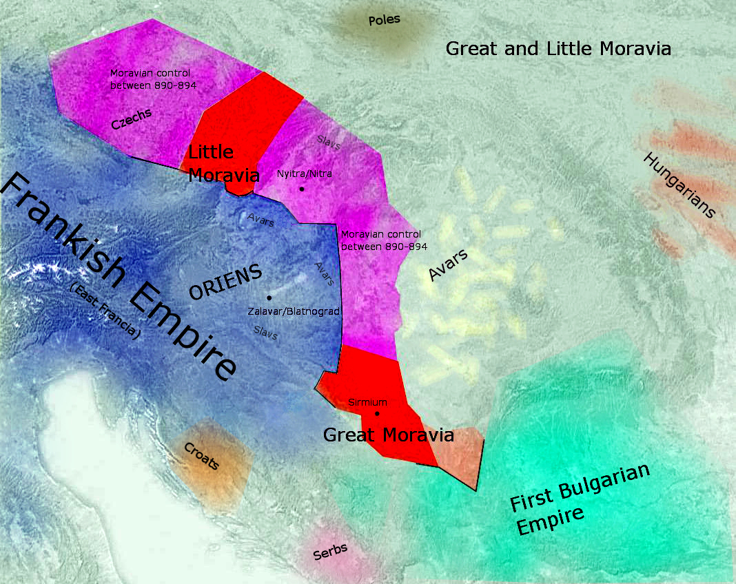 Carpathian Basin before the Hungarian conquest. (According to Peter Nagy Puspoki's theory)